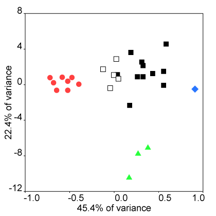 Y-chromosomal variation in the Czech Republic by American Journal of Physical Anthropology: Correspondence Analysis. Two-dimensional plot of the distribution of populations according to their Haplogroup frequencies. Czech samples German samples Polish samples Italian samples Balkan samples Work based on: (2007). "Y-chromosomal variation in the Czech Republic". Am. J. Phys. Anthropol. 132 (1): 132–9. PMID 17078035.